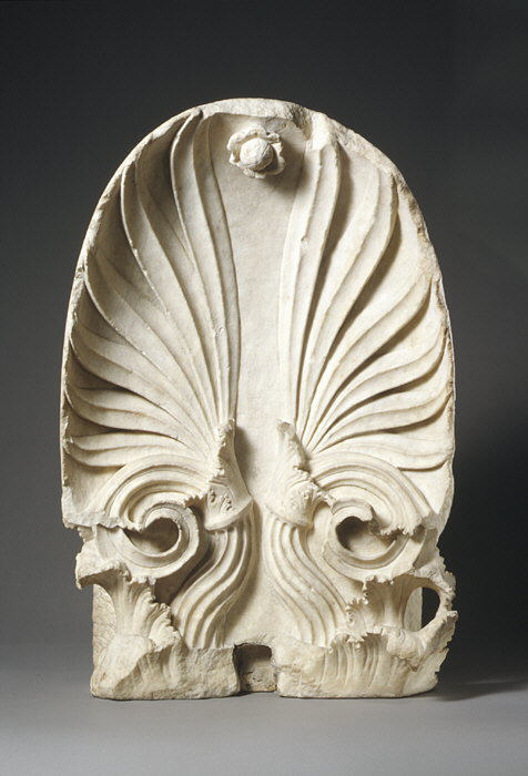 Greek, Attic; Akroterion of the grave stele of Timotheos and Nikon; Stone Sculpture